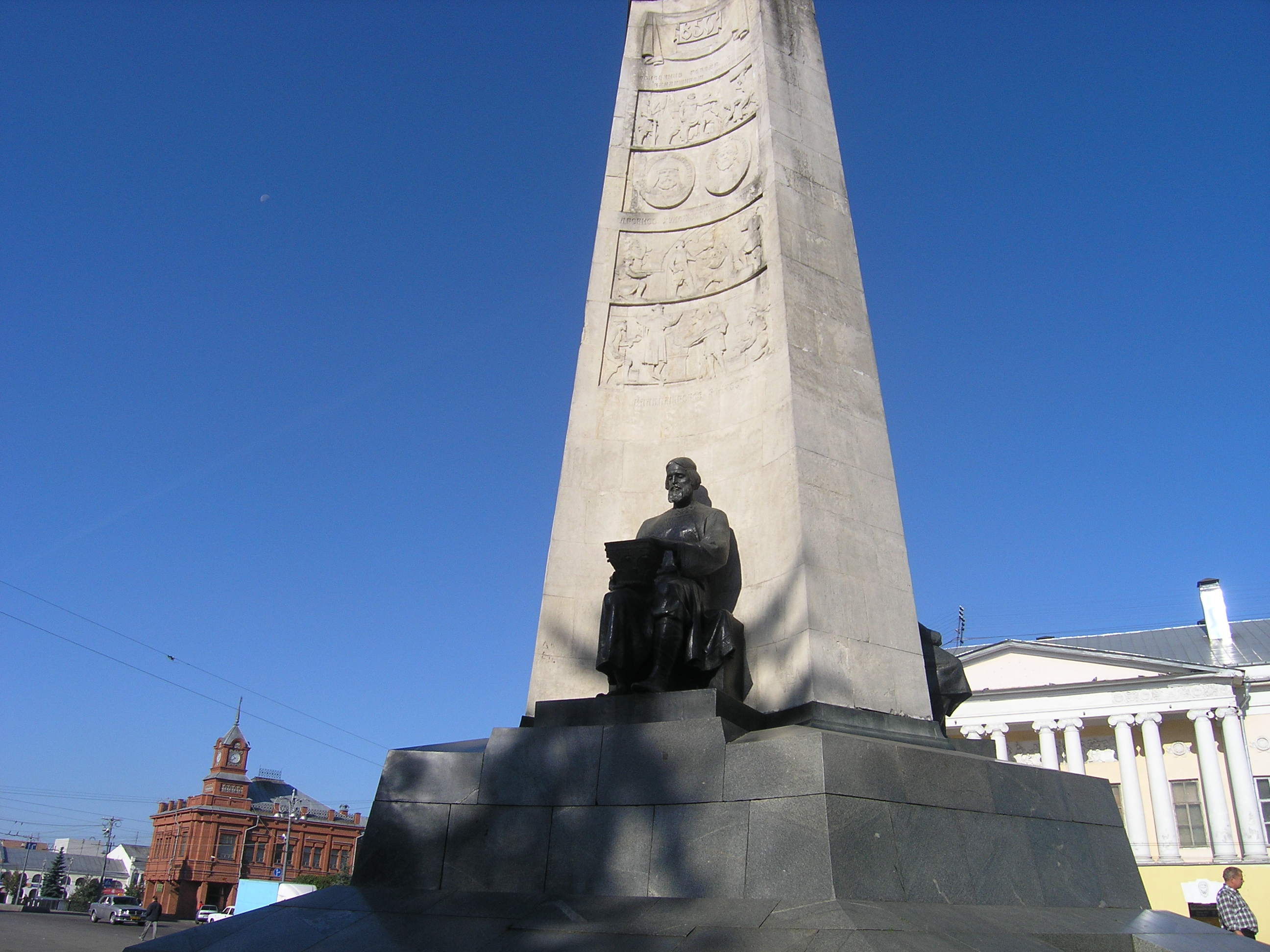 Monument to 850 years anniversary of city. Vladimir, Russia.